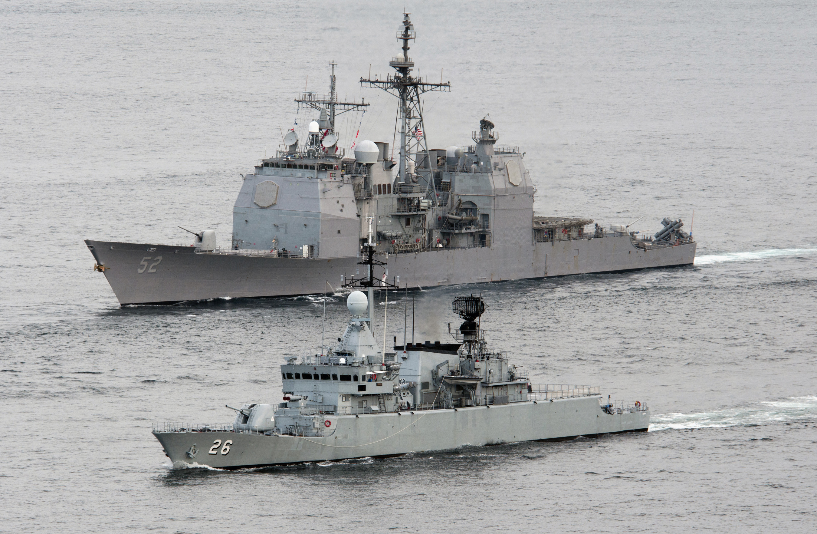 STRAIT OF MALACCA (Jan. 26, 2011) The Royal Malaysian Navy frigate KD Lekir (FF 26) leads the Ticonderoga-class guided missile cruiser USS Bunker Hill (CG-52) during a passing exercise. Carl Vinson and Carrier Air Wing 17 are underway on a deployment to the U.S. 7th Fleet area of responsibility. (U.S. Navy photo by Mass Communication Specialist 2nd Class James R. Evans/Released)